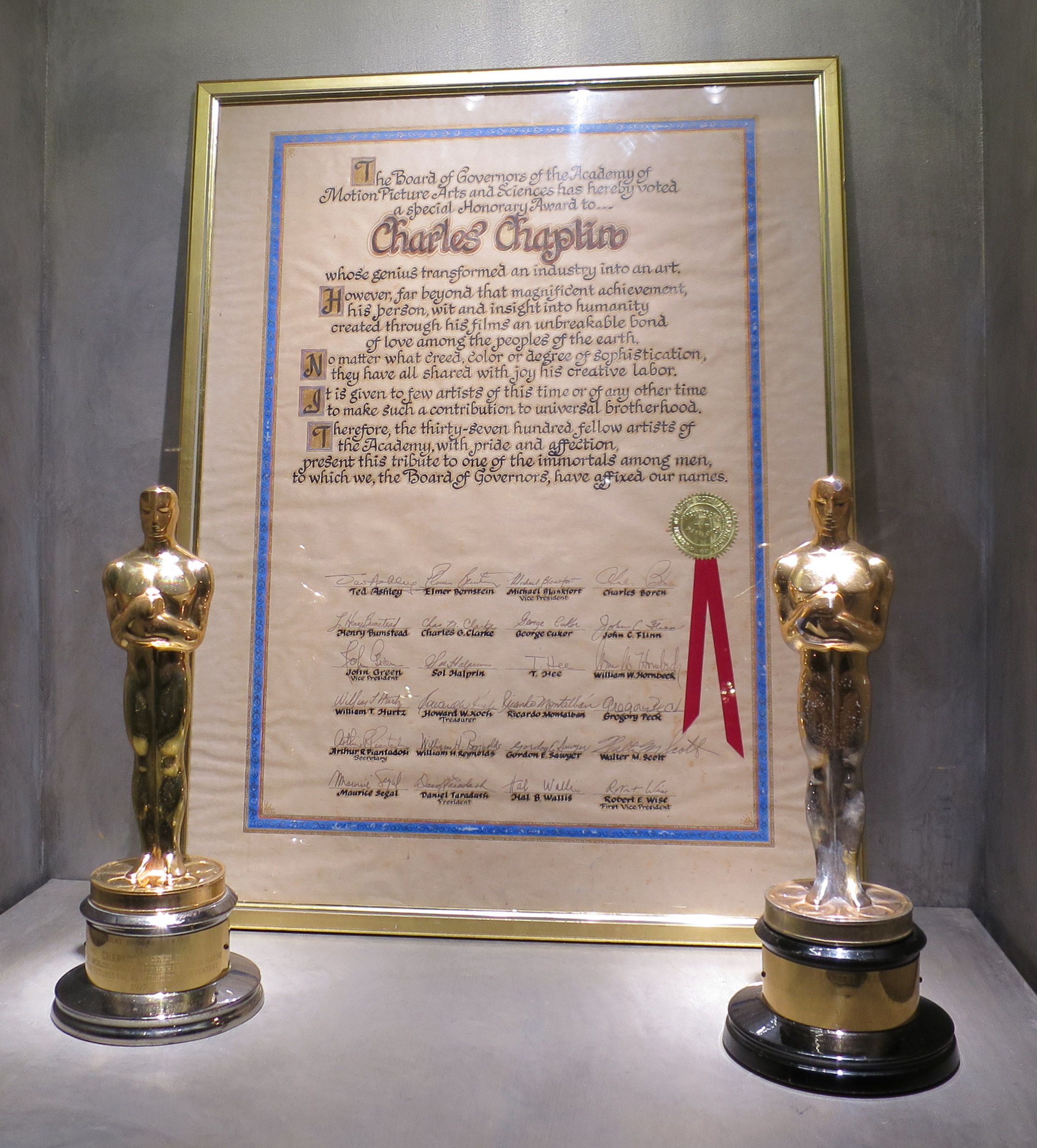 Honorary Academy Awards